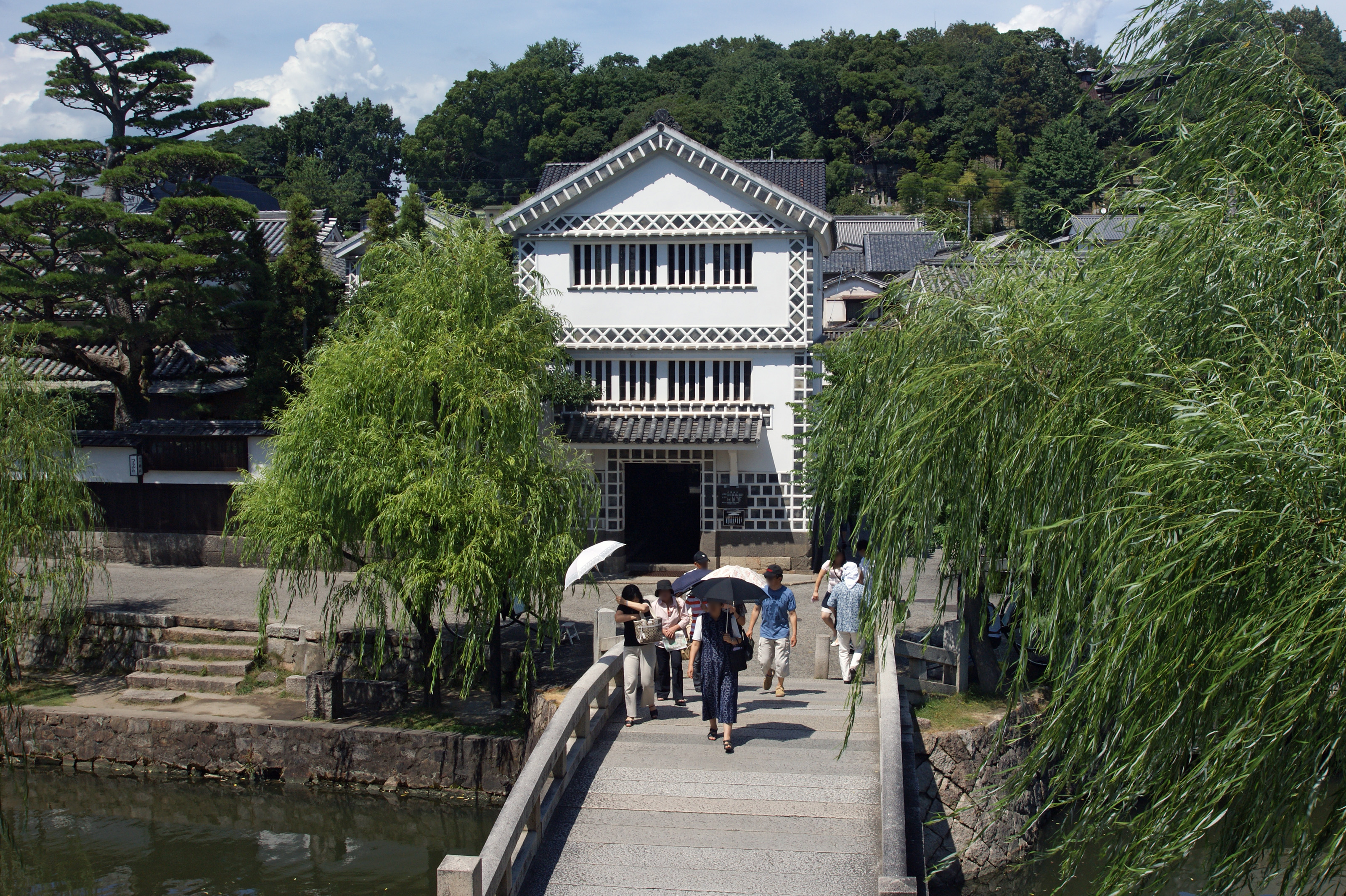 Kurashiki Bikan historical quarter in Kurashiki, Okayama prefecture, Japan